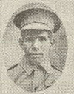 Cobbo, Daniel. Member of the Australian Light Horse, 1917